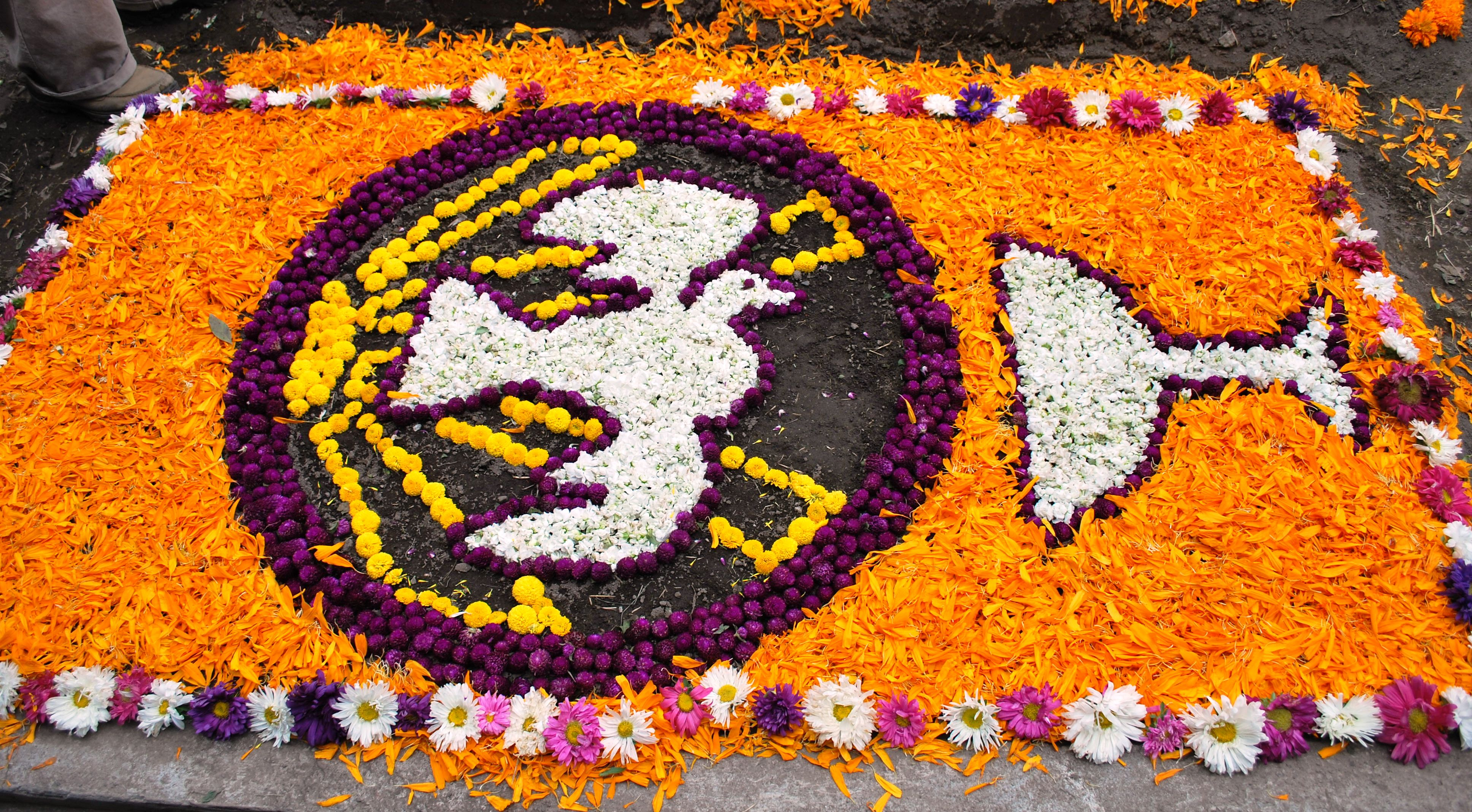 Grave decorated with flowers and flower petals with image of Holy Spirit and chalice at San Andres Mixquic, Mexico City on Day of the Dead.